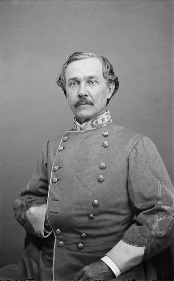 Joseph Reid Anderson, a General of the Confederate States Army during the American Civil War (shown in uniform). The proprietor of the Tredegar Iron Works in Richmond, Virginia. After he was injured in battle, he spent the remainder of the war working in the Ordinance Department. Library of Congress, Prints and Photographs Division Washington, D.C. Original photograph ca. 1861-1865; Confederate States of America military photo; Forms part of Civil War glass negative collection